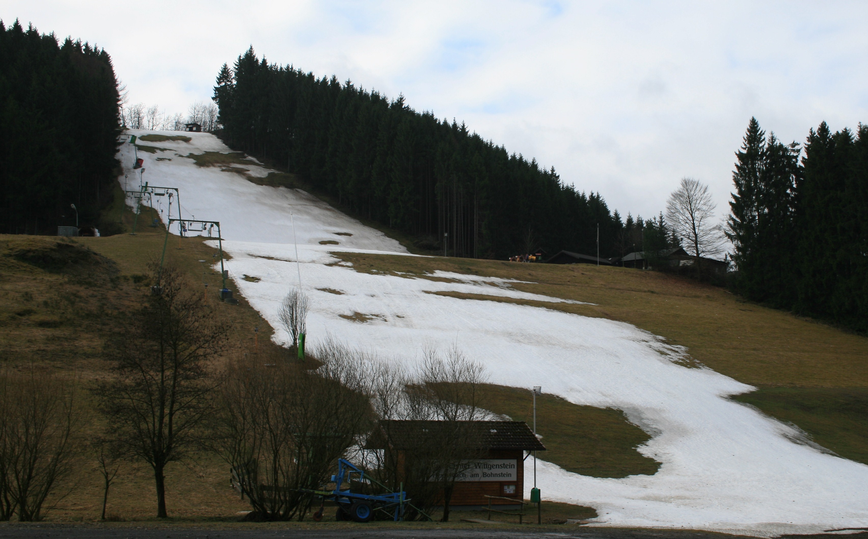 Skiing resort Hesselbach (Skigebiet Hesselbach) in Hesselbach (march 2009).